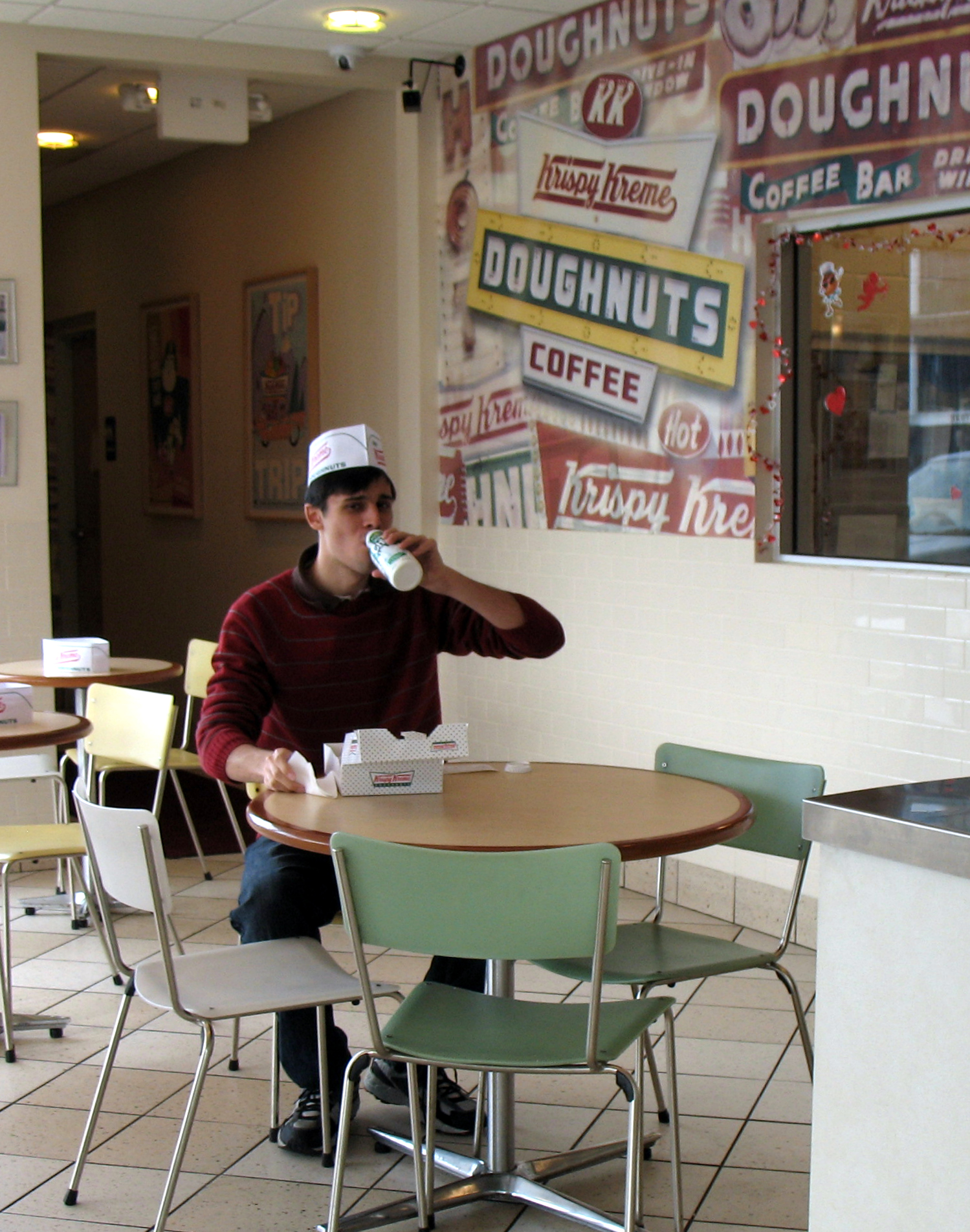 A Krispy Kreme employee takes a quick break.